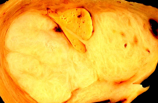 This is a Müllerian adenosarcoma in the hysterectomy specimen of a 44-year-old woman, who presented with menorrhagia and iron deficiency anemia. The uterus contained many leiomyomata, and this 2-cm yellow adenosarcoma, snuggled up in the crevice of a leiomyoma, was a serendipitous finding. Although situated entirely in the myometrium, this potentially malignant tumor has a polypoid configuration, giving it a "shelled-out" appearance in this view. Photograph by Ed Uthman, MD. Public domain. Posted 3 Jan 99